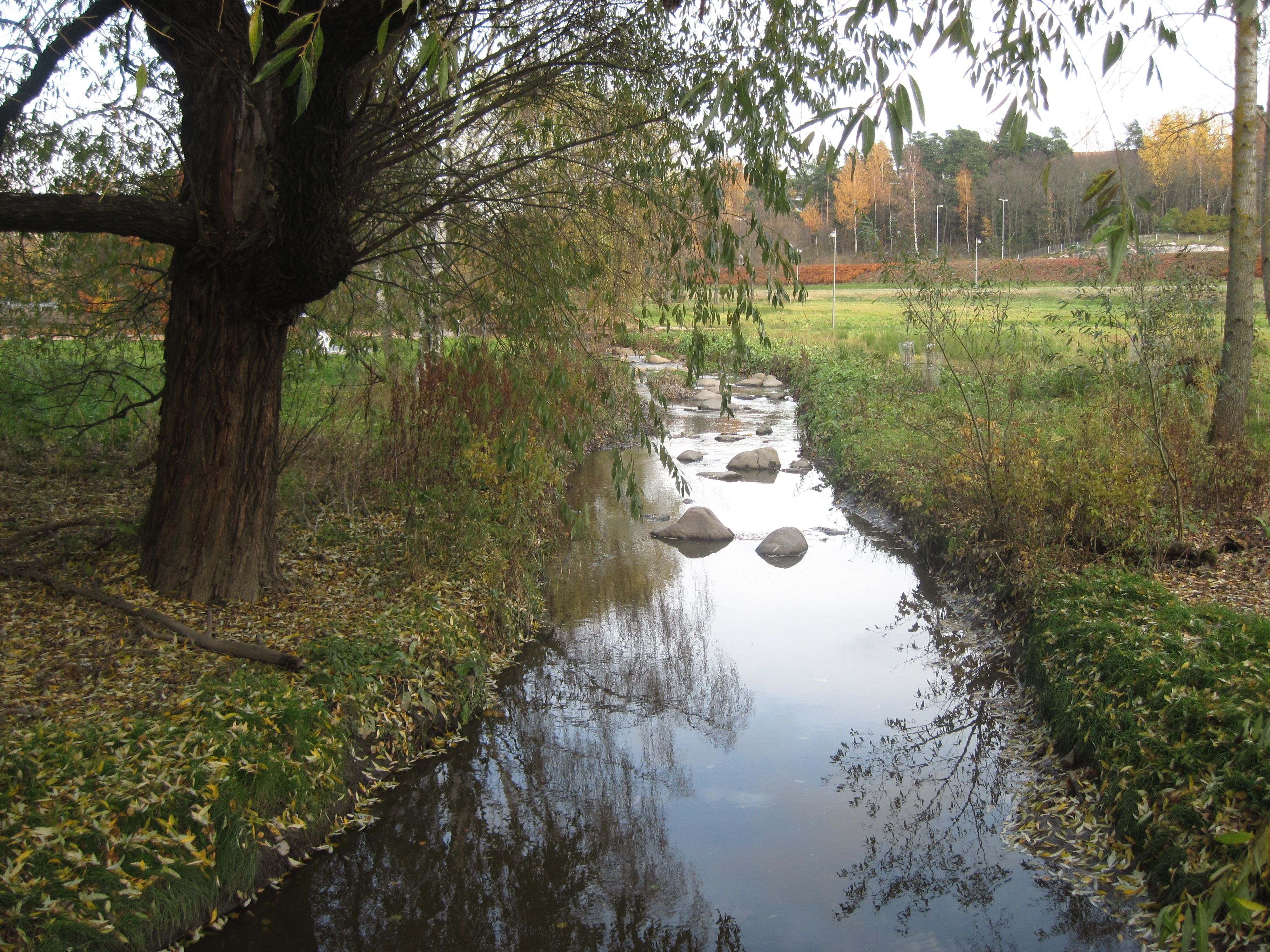 Haaganpuro in Kauppalanpuisto Park, Helsinki